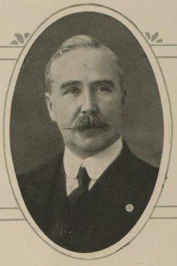 John Bromley, General Secretary of ASLEF and, later, Member of Parliament.